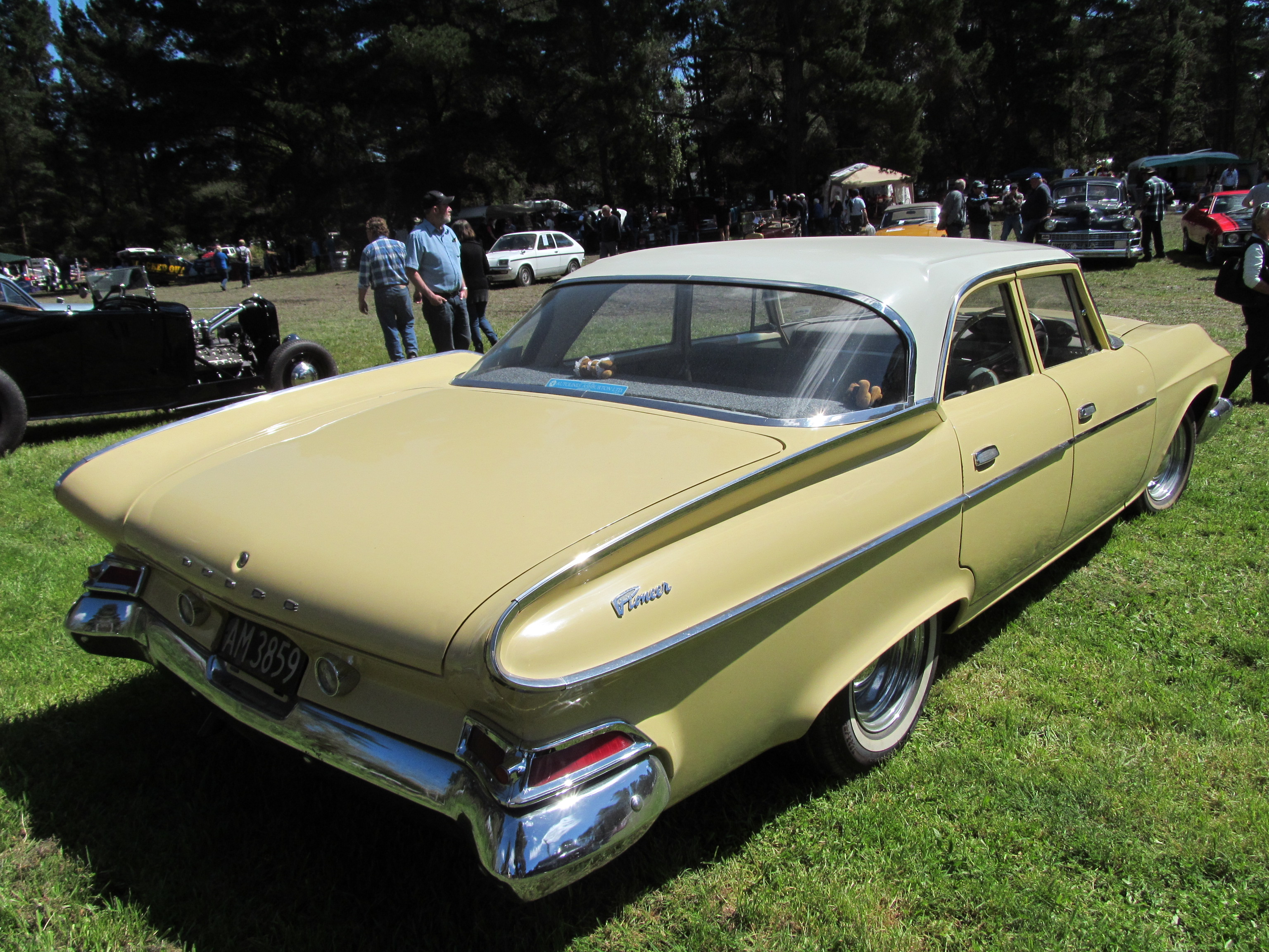 AM3859 It would appear that this car was sold new by a dealer in Ashburton, which makes this even better. This shape of Pioneer is easily one of my favourite American designs ever.